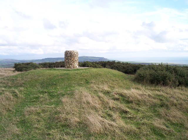 Limerstone Down Toposcope. Brighstone Down